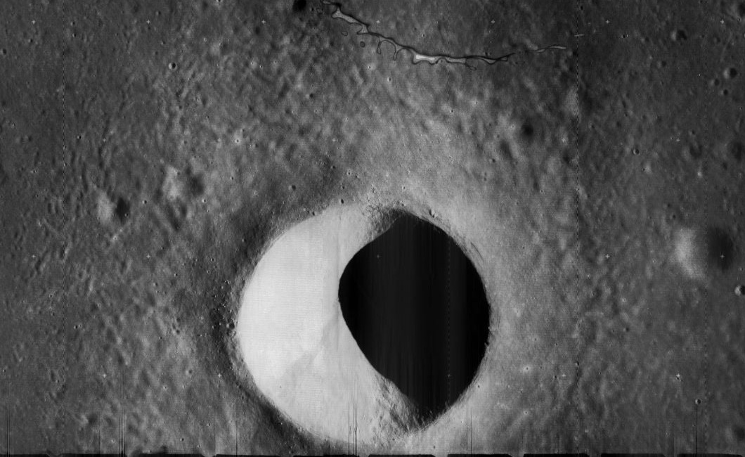 Moltke, on the moon. The curved splotch at the top of the image is a blemish on the original.